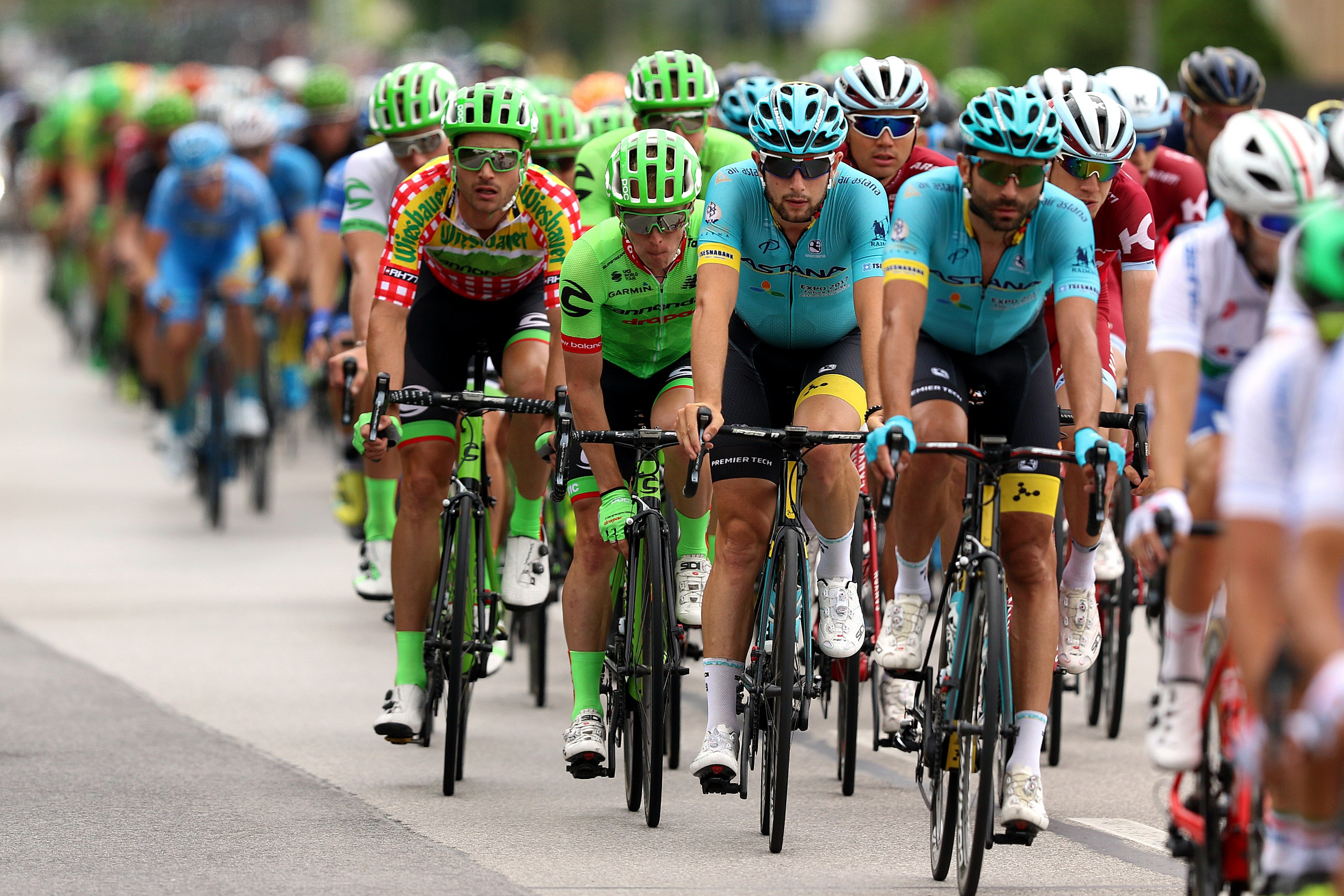 Tour of Austria 2017, stage 1 - Impressions of the Tour.